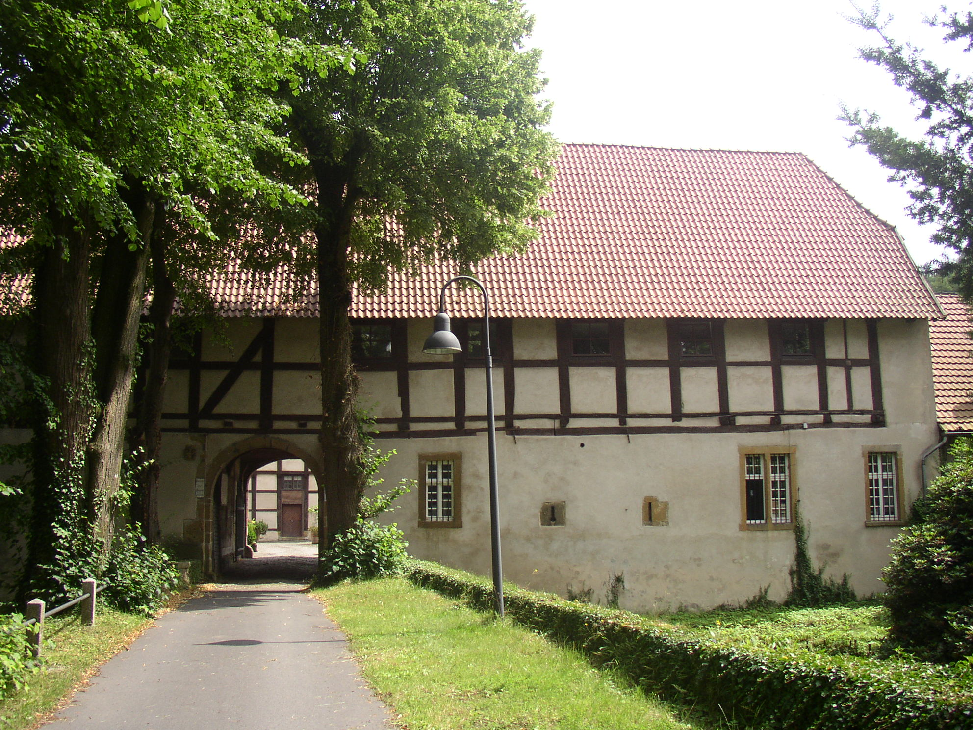 gate house of moated castle Brincke in Borgholzhausen, County of Gütersloh, Germany